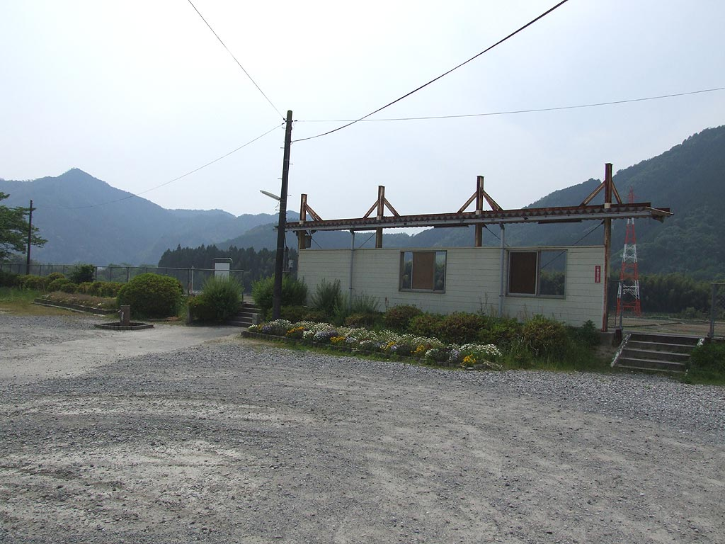 Minamigochi Station. Nishikigawa Railway Nishikigawa-Seiryu Line.